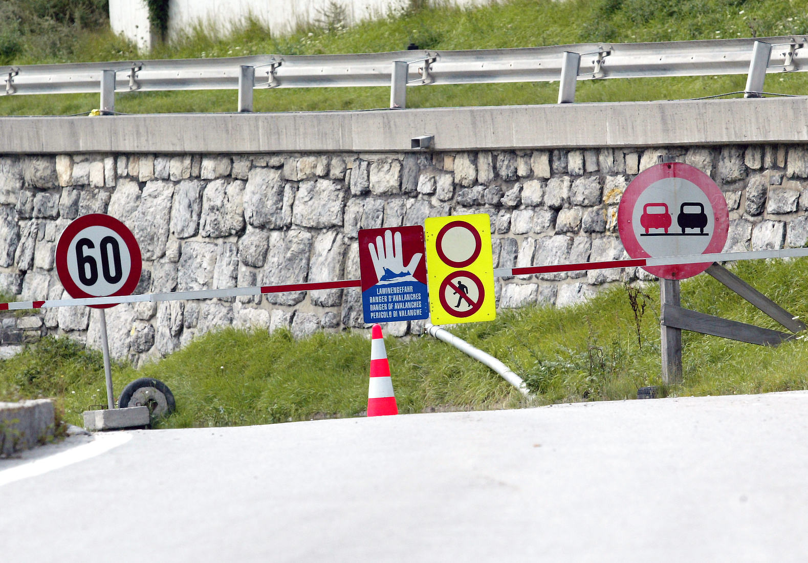 Sperre der Straße ins Paznaun aufgrund der Hochwasserkatastrophe